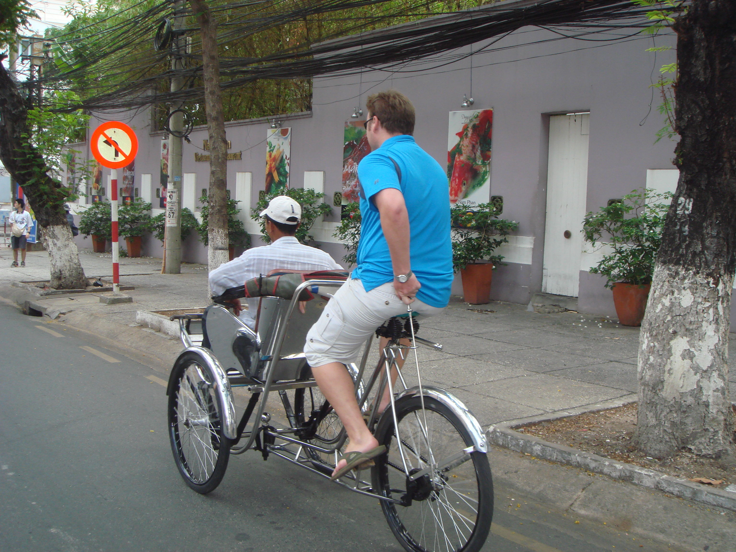 A rickshaw in Hochiminh city, Vietnam.